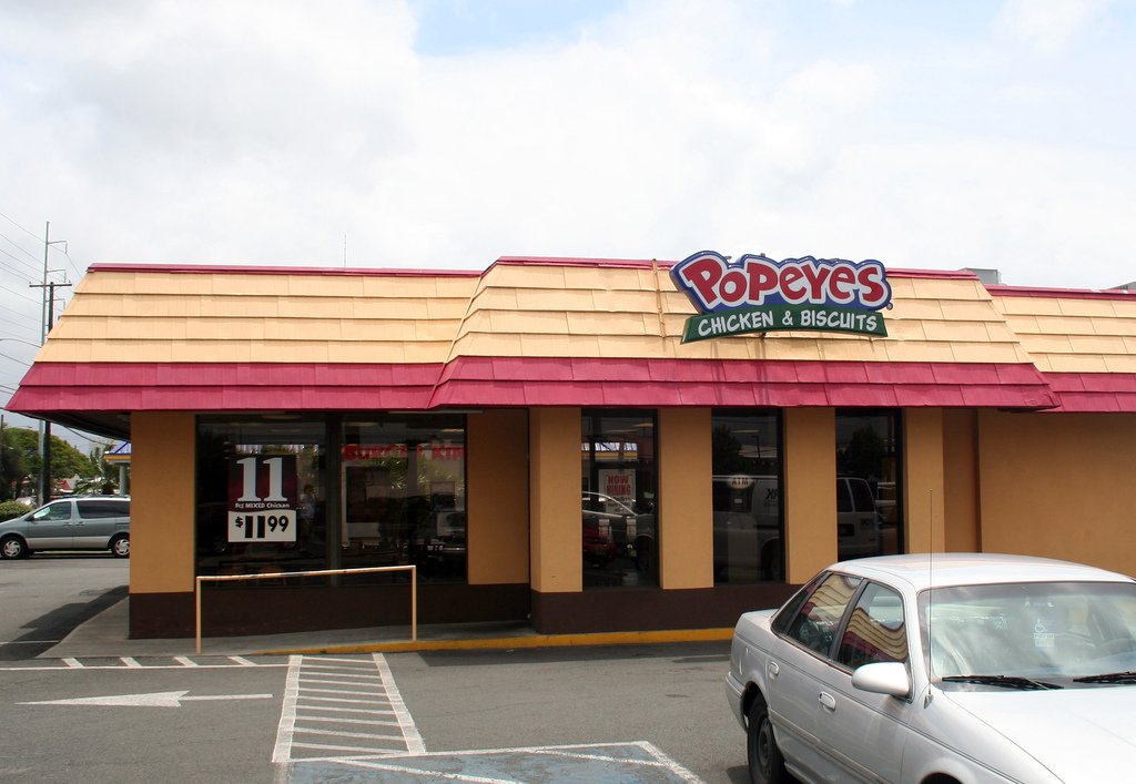 Popeyes, aka Mr Clucks in Kalihi, Honolulu. This building is the location of the Mr Cluck's restaurant where Hurley works in the episodes "Everybody Hates Hugo" and "Tricia Tanaka is dead"